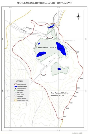 gualisu